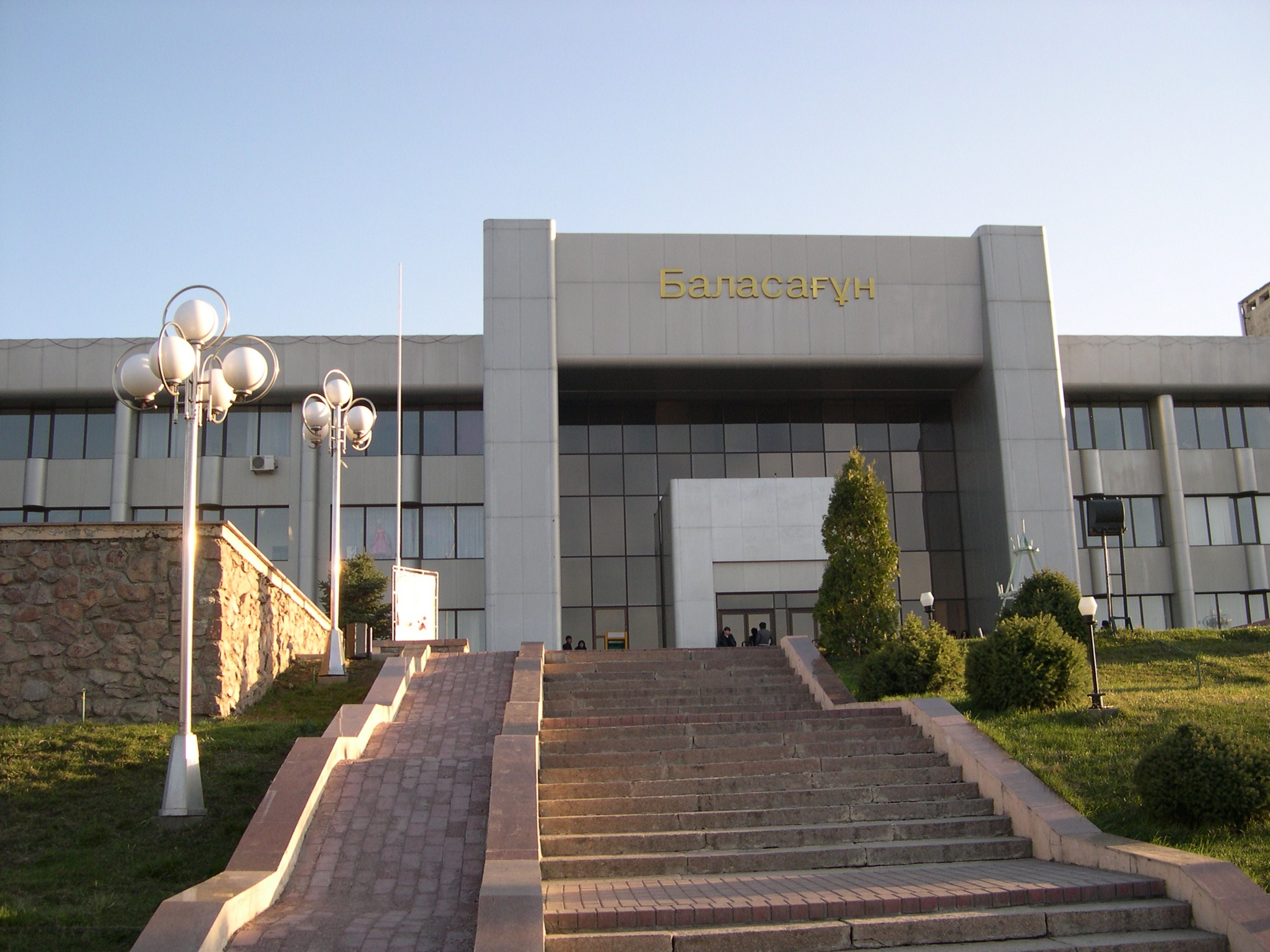 The big concert hall/performance center in Taraz.